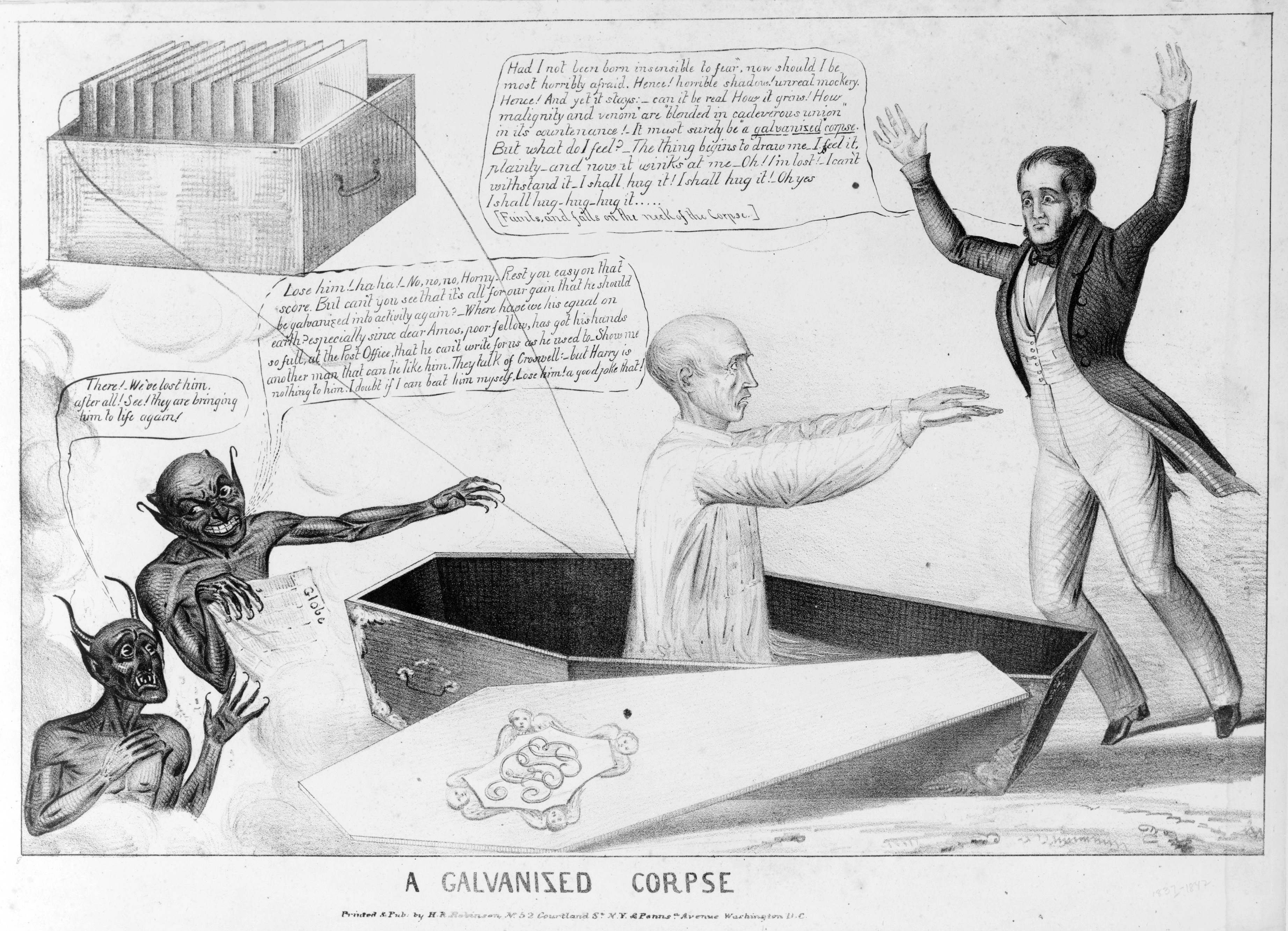 Rising of a corpse galvanized by a primitive galvanic battery. A pedestrian throws his arms in the air because of shock, saying: 'Had I not been born insensible to fear, now should I be most horribly afraid. Hence! horrible shadow! unreal mockery. Hence! And yet it stays: can it be real. How it grows! How malignity and venom are "blended in cadaverous union" in its countenance! It must surely be a "galvanized corpse." But what do I feel? The thing begins to draw me . . . I can't withstand it. I shall hug it! . . . ' Two demons in the left down corner discussing. First demon: "There! We've lost him, after all! See! they are bringing him to life again!" Second demon: (holding a copy of Blair's newspaper, the "Globe)": "Lose him! ha ha! . . . Rest you easy on that score. But can't you see that it's all for our gain that he should be galvanized into activity again? Where have we his equal on earth? especially since dear Amos [Kendall], poor fellow, has got his hands so full, at the Post Office, that he can't write for us as he used to. Show me another man that can lie like him. They talk of Croswell [influential editor of the "Albany Argus" and Van Buren ally Edwin Croswell] but Harry is nothing to him. I doubt if I can beat him myself. Lose him! a good joke that!"